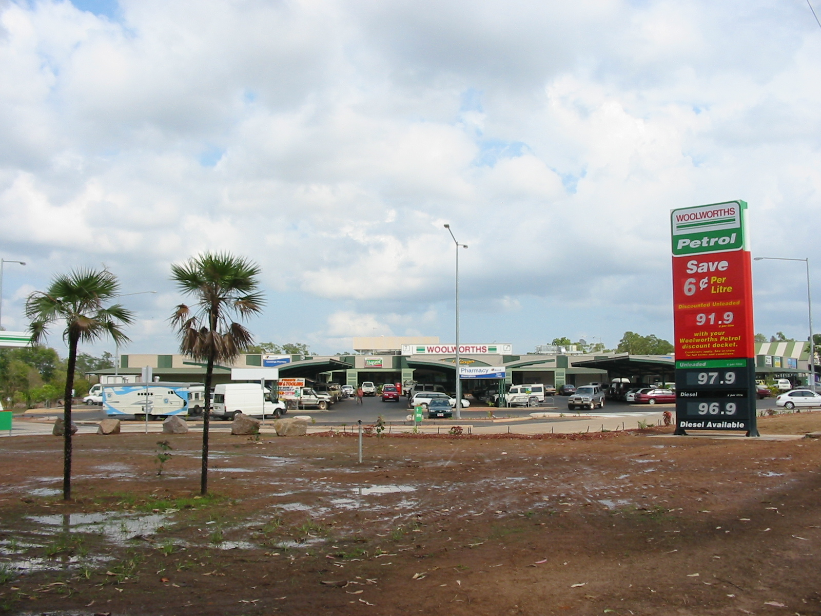 Coolalinga shops South of Darwin on the Stuart Highway between Palmerston and Noonamah.